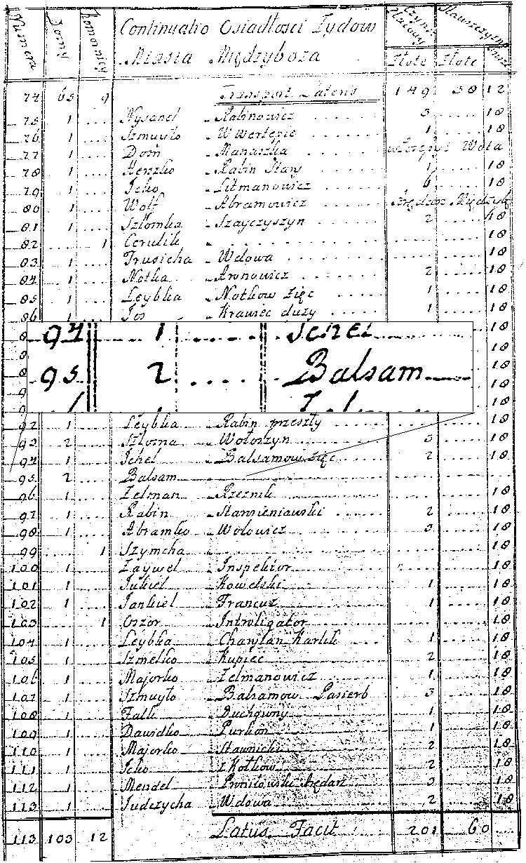 (Keywords: Baal Shem Tov) A portion of the 1758 tax list of Medzhibozh, at the time in Poland. House #95 is listed having the Baal Shem as an occupant.